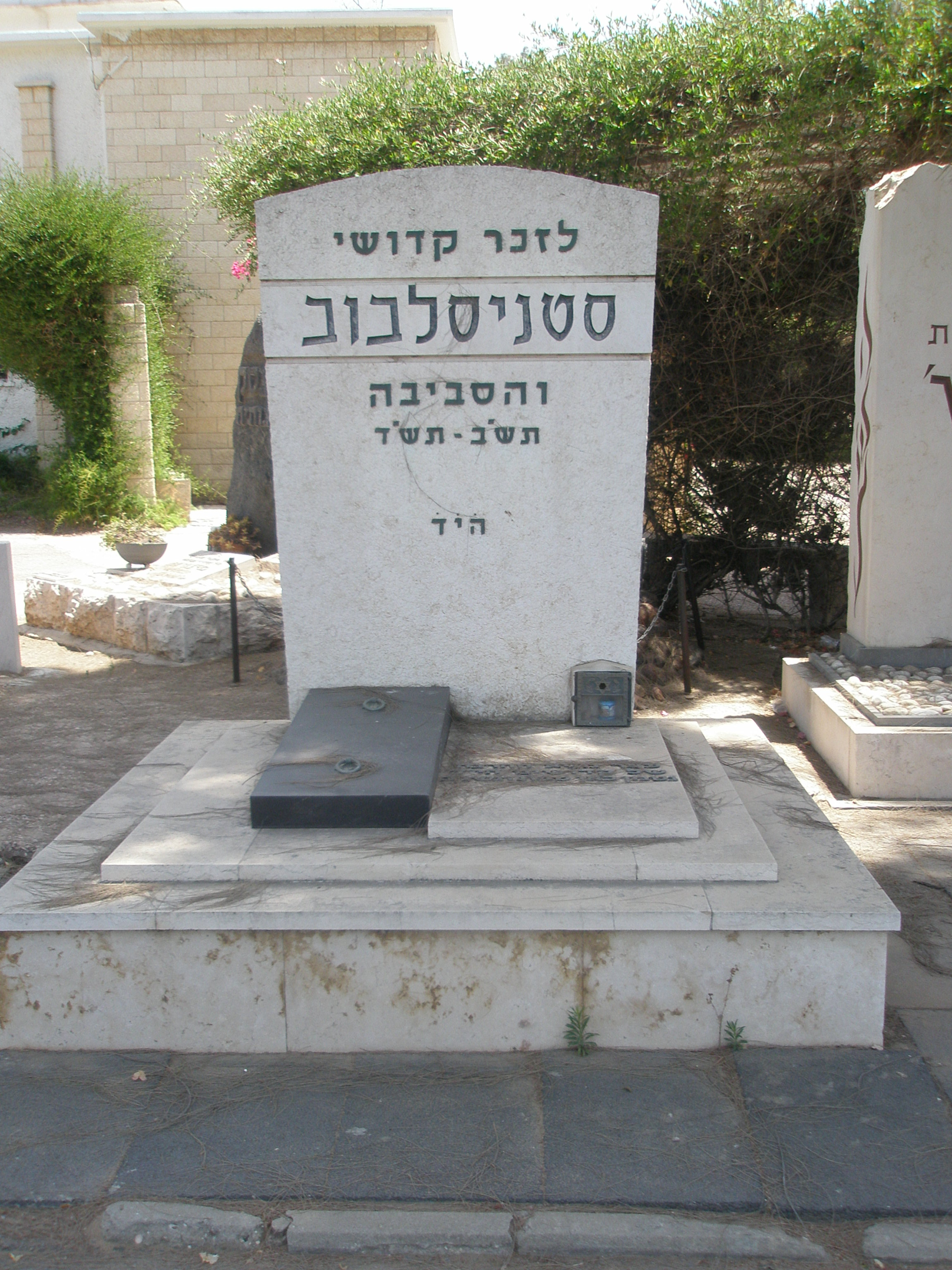 Stanisławów Jewery memorial at Kiriat Shaul cemetery